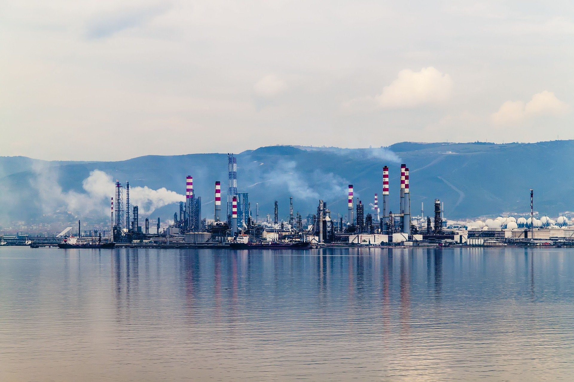 A view of TUPRAS Izmit Refinery from the bay.